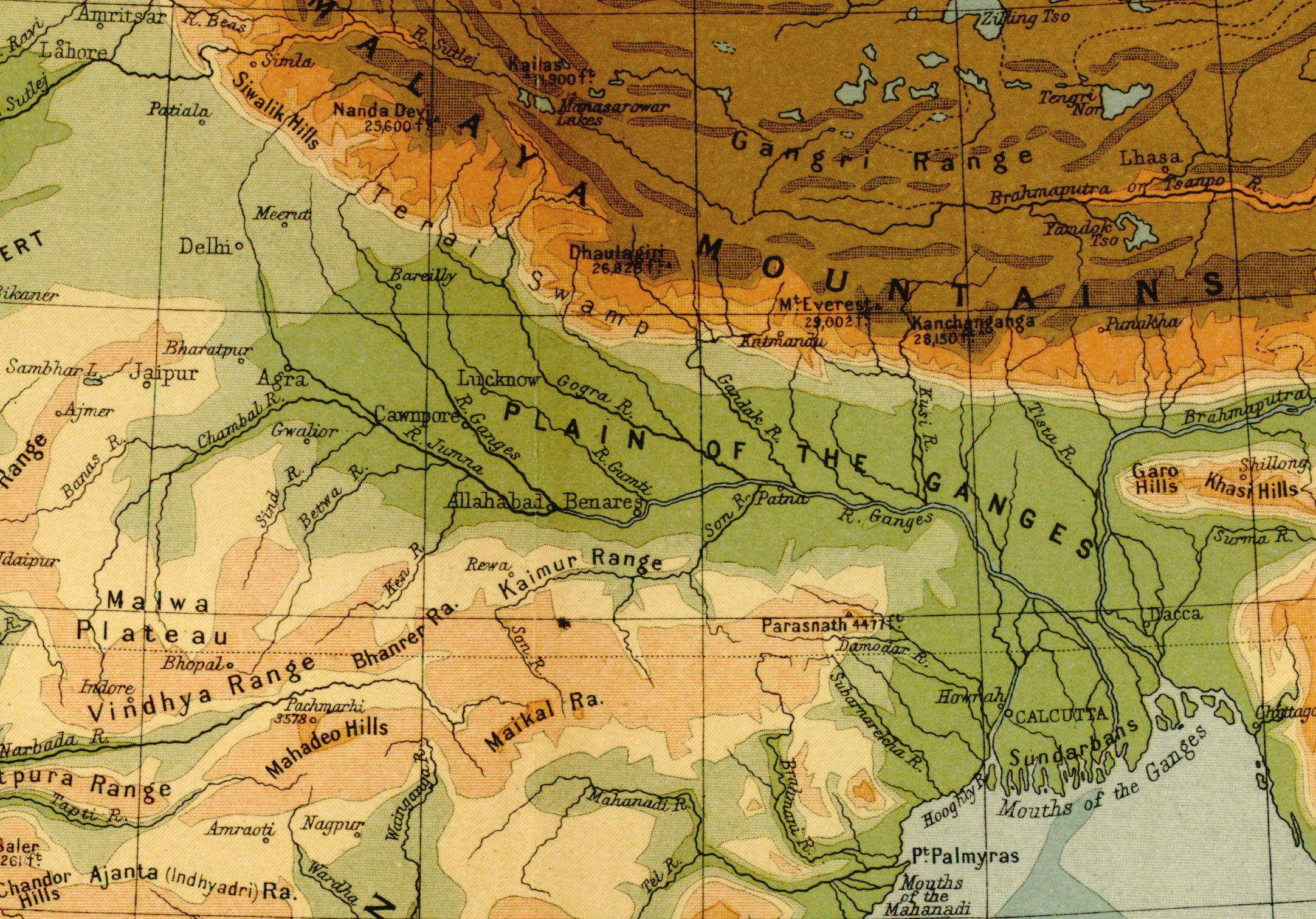 The Ganges river valley and plain as shown in a portion of the map, "India: Orthographical Features" from Imperial Gazetteer of India, volume 26, Atlas (Map Number 3) (1908).